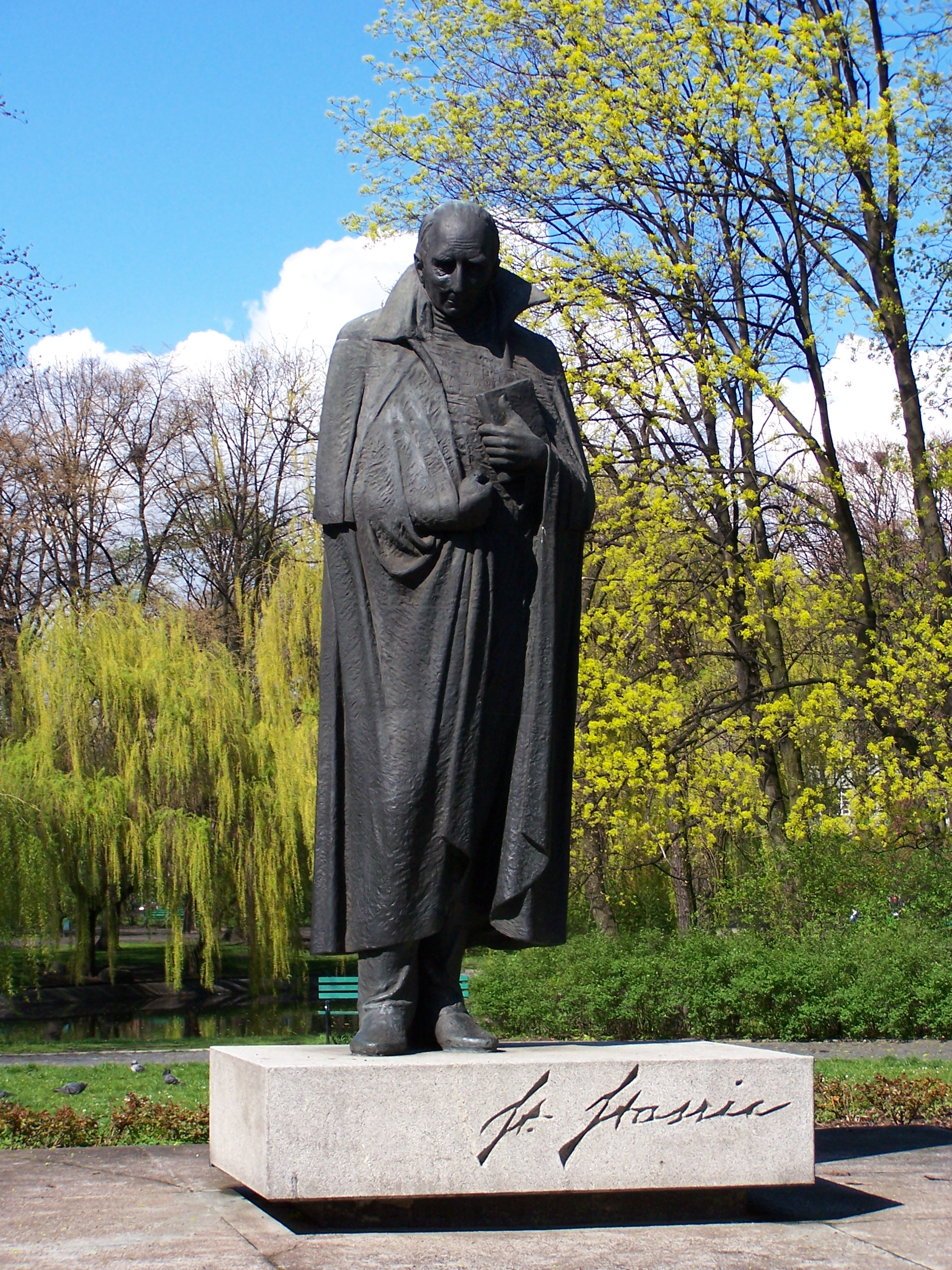 Monument of Stanisław Staszic in Łódź (Poland).